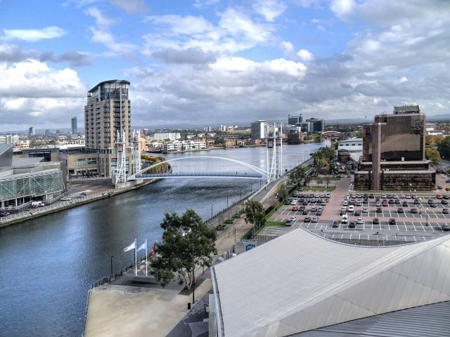 Manchester Ship Canal, with Salford Quays to the left and Trafford Wharf to the right. A view from the Air Shard viewing platform at the Imperial War Museum North looking along the Manchester Ship Canal towards Manchester. The Lowry Bridge, also known Millennium Bridge (it was built in 2000) provides pedestrian access between The Lowry Centre on the north bank of the Manchester Ship Canal and Trafford Wharf on the south bank. It was designed as a lift bridge because the Manchester Ship Canal is still navigable to shipping beyond the bridge.